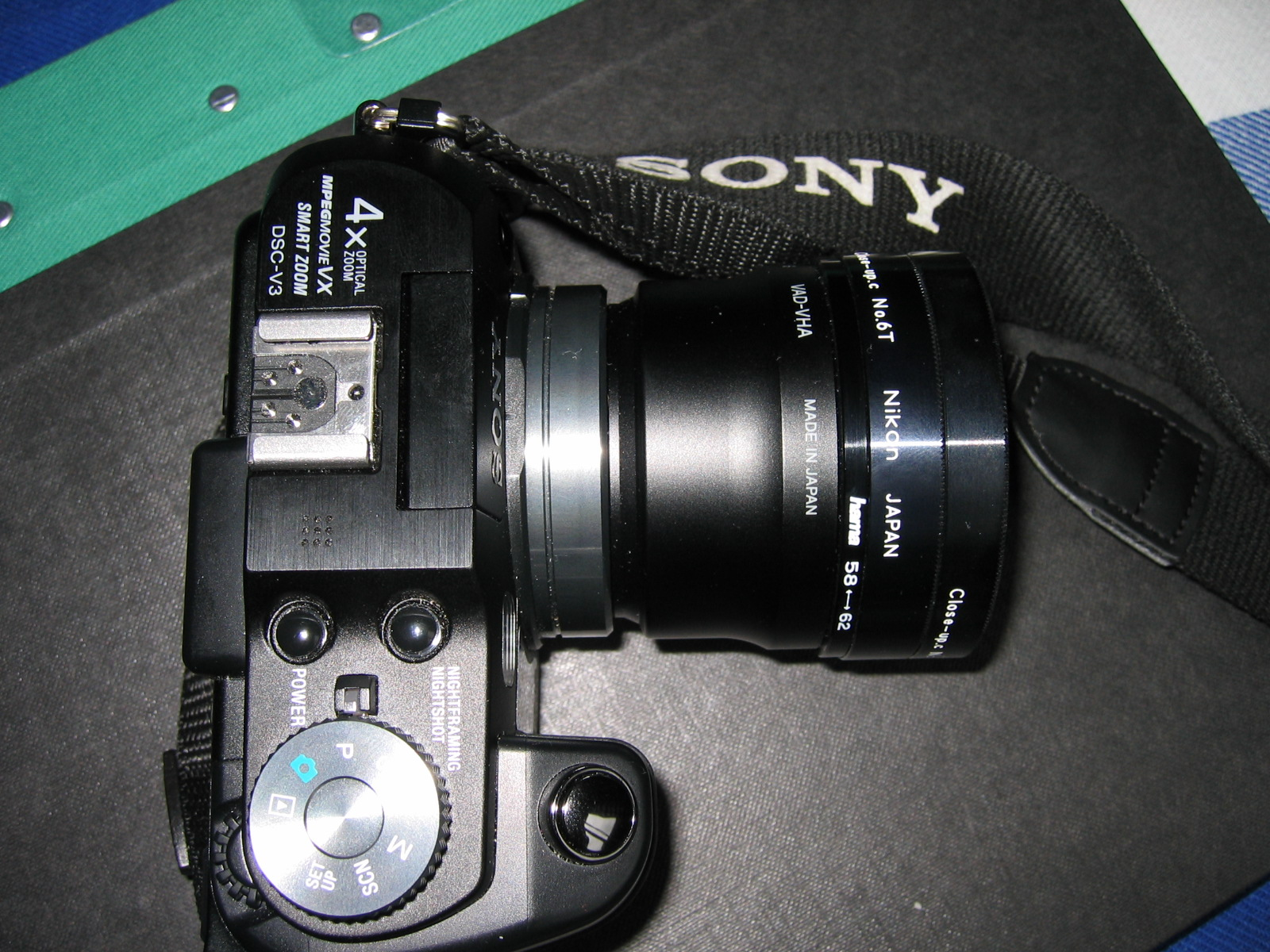 Sony DSC-V3, digital camera